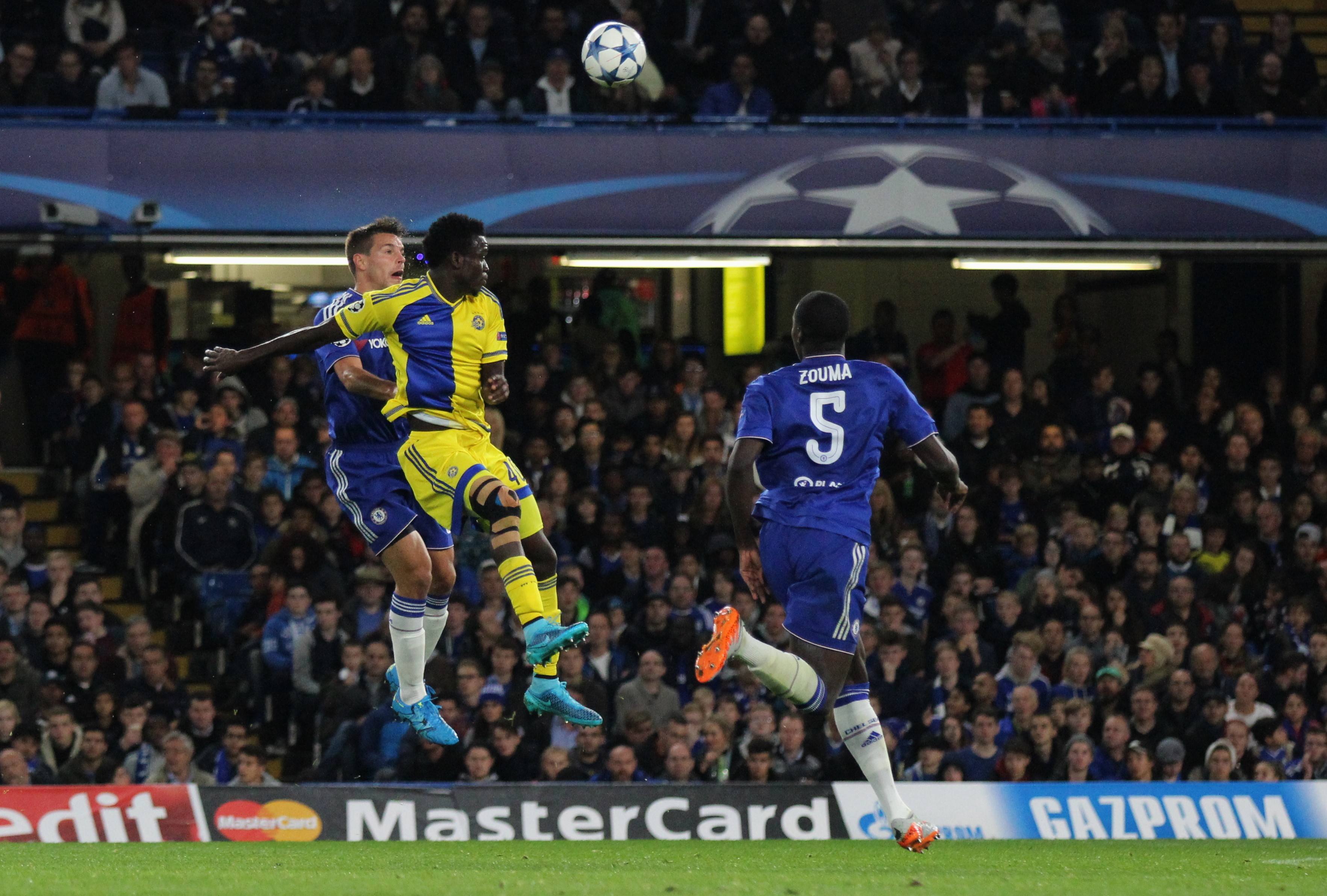 Cesar Azpilicueta of Chelsea and Nosakhare Igiebor of Maccabi Tel-Aviv challenge for the ball during the Champions League group stage game.